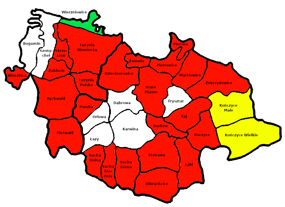 Austria-Hungary 1907 elections results, Walhbezirk 15 red - Tadeusz Reger (PPSD, socialist) yellow - Franciszek Halfar (ZŚK) green - Franicszek Friedel (radykałowie)